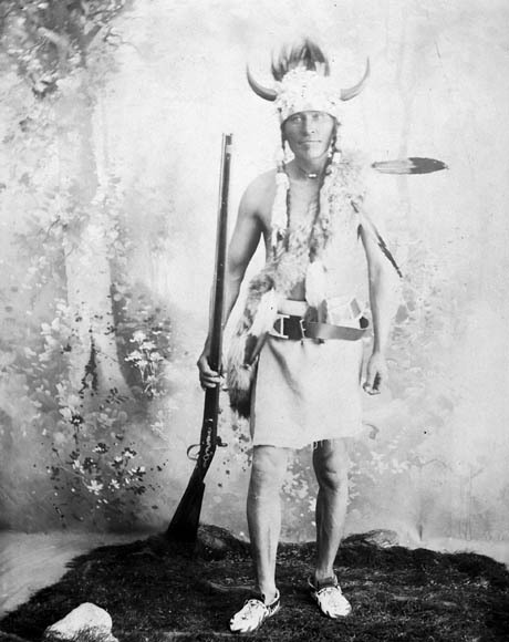 Kamiokisihkwew, Kah-Me-Yo-Ki-Sick-Way, "Fine Day" or Fine-Day, Battleford, Sask.